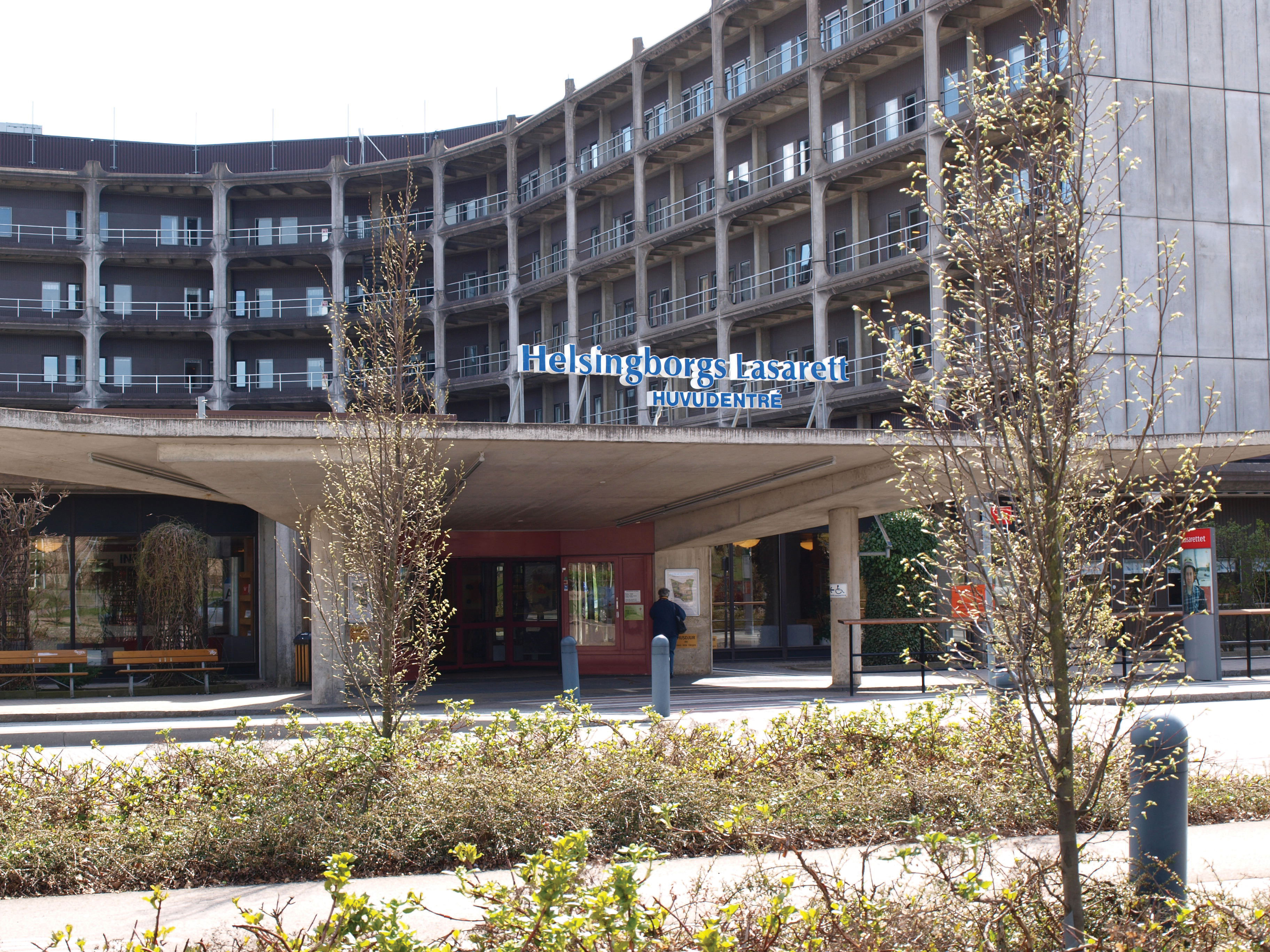 Main entrance Helsingborg Hospital